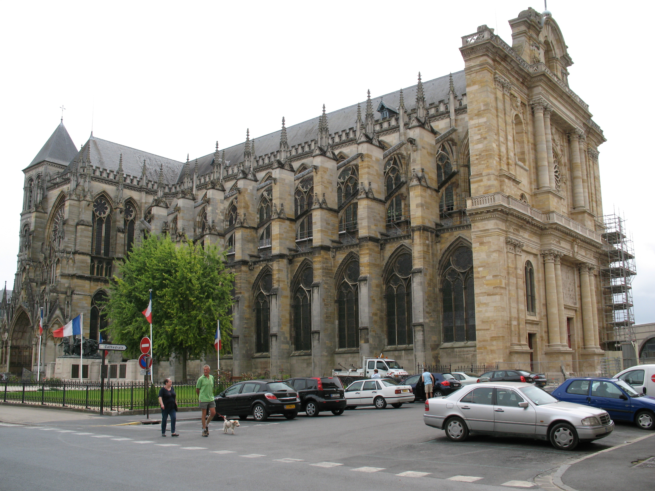 Gothic cathedral of Châlons-en-Champagne